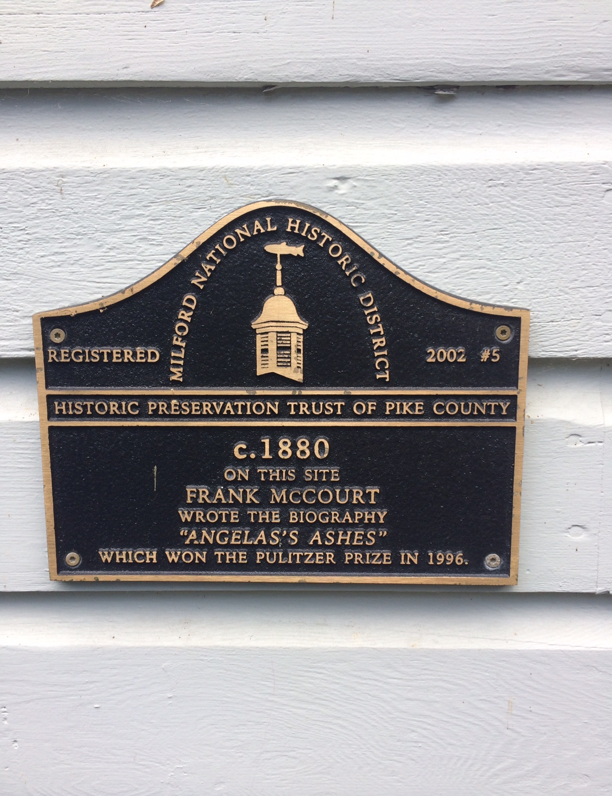 Plaque, FrankMcCourt wrote Angelas's Ashes